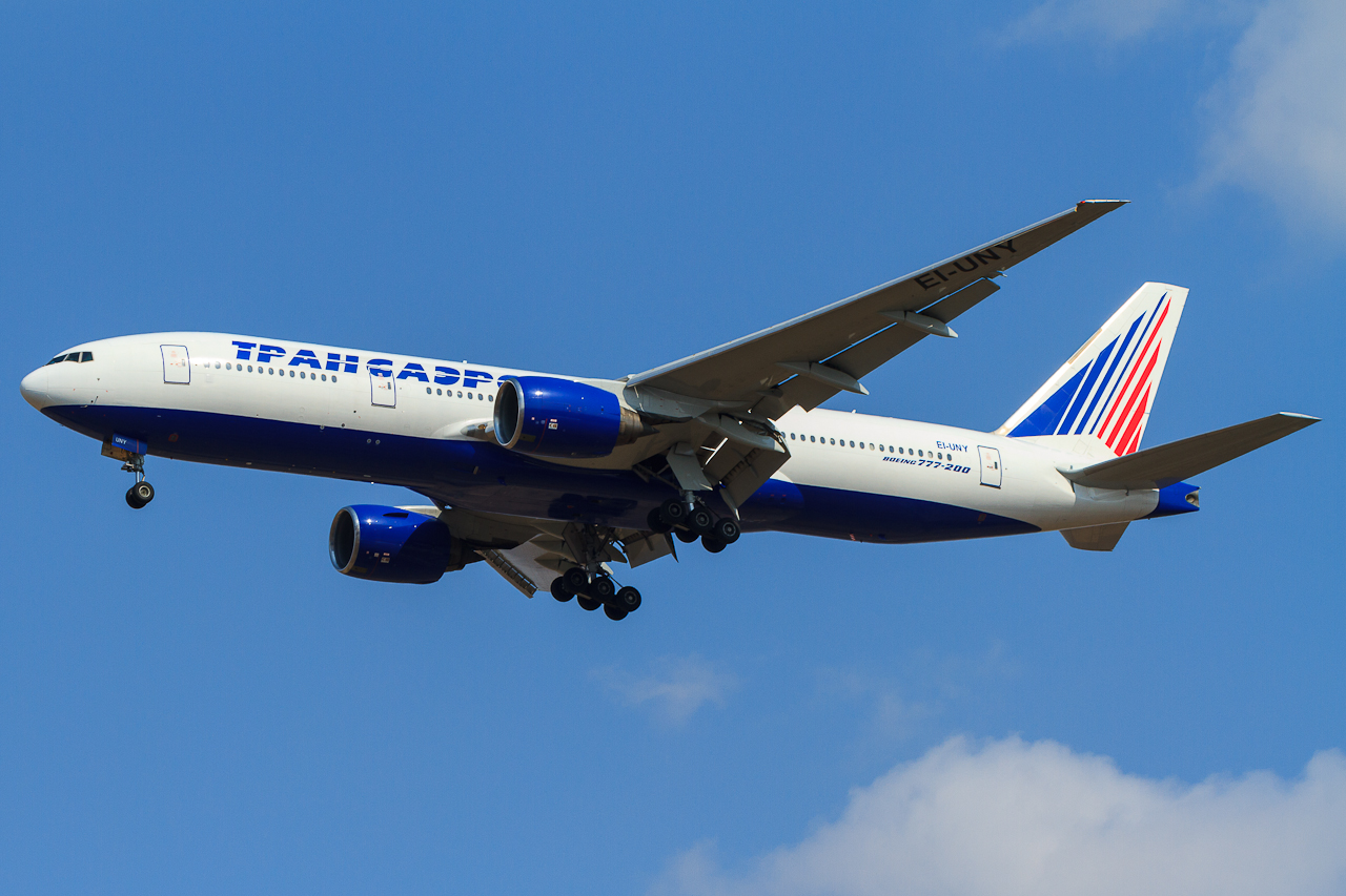 Transaero Airlines Boeing 777-200